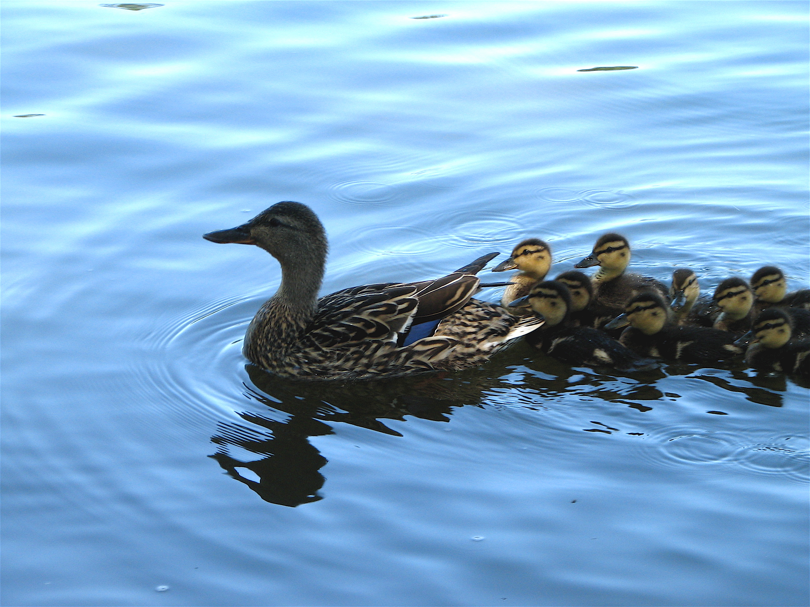 A mother Anas platyrhynchos (Mallard) duck guides her babies through a river.